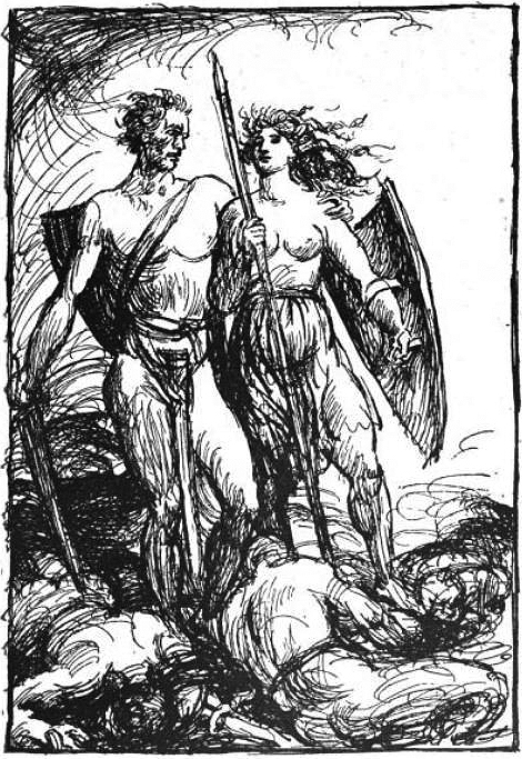 Helgi Hundingsbane and Sigrún (1919) by Robert Engels. Title not given in work. The hero Helgi Hundingsbane holds a sword and looks to his lover, the valkyrie Sigrún, who holds a spear and a shield.